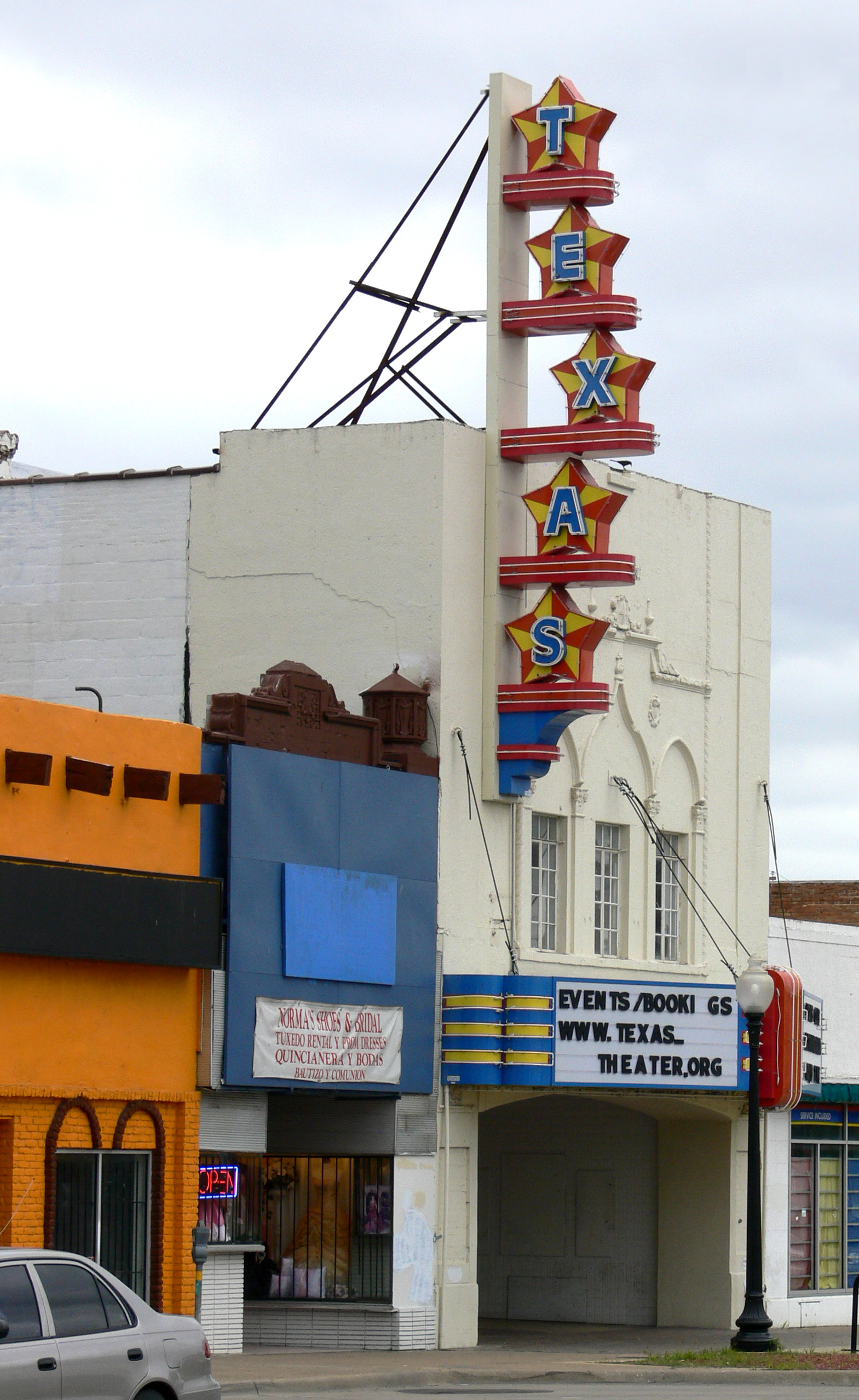 Texas Theatre, Dallas